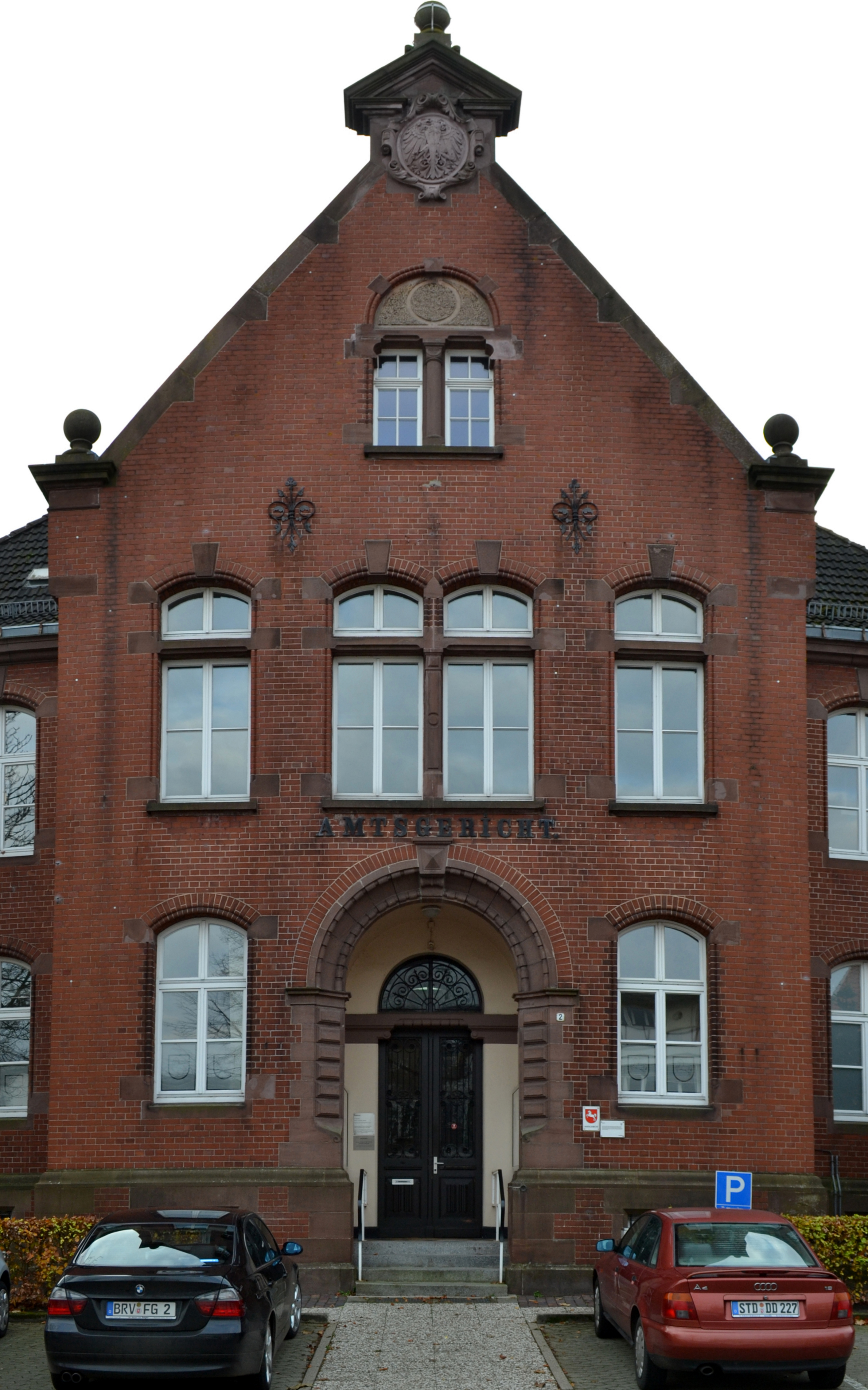 This image shows the district court of the city Bremervörde. Adress: Amtsallee 1/2, 27432 Bremervörde-DE